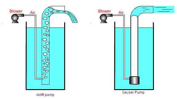 Airlift Pump verses Geyser Pump